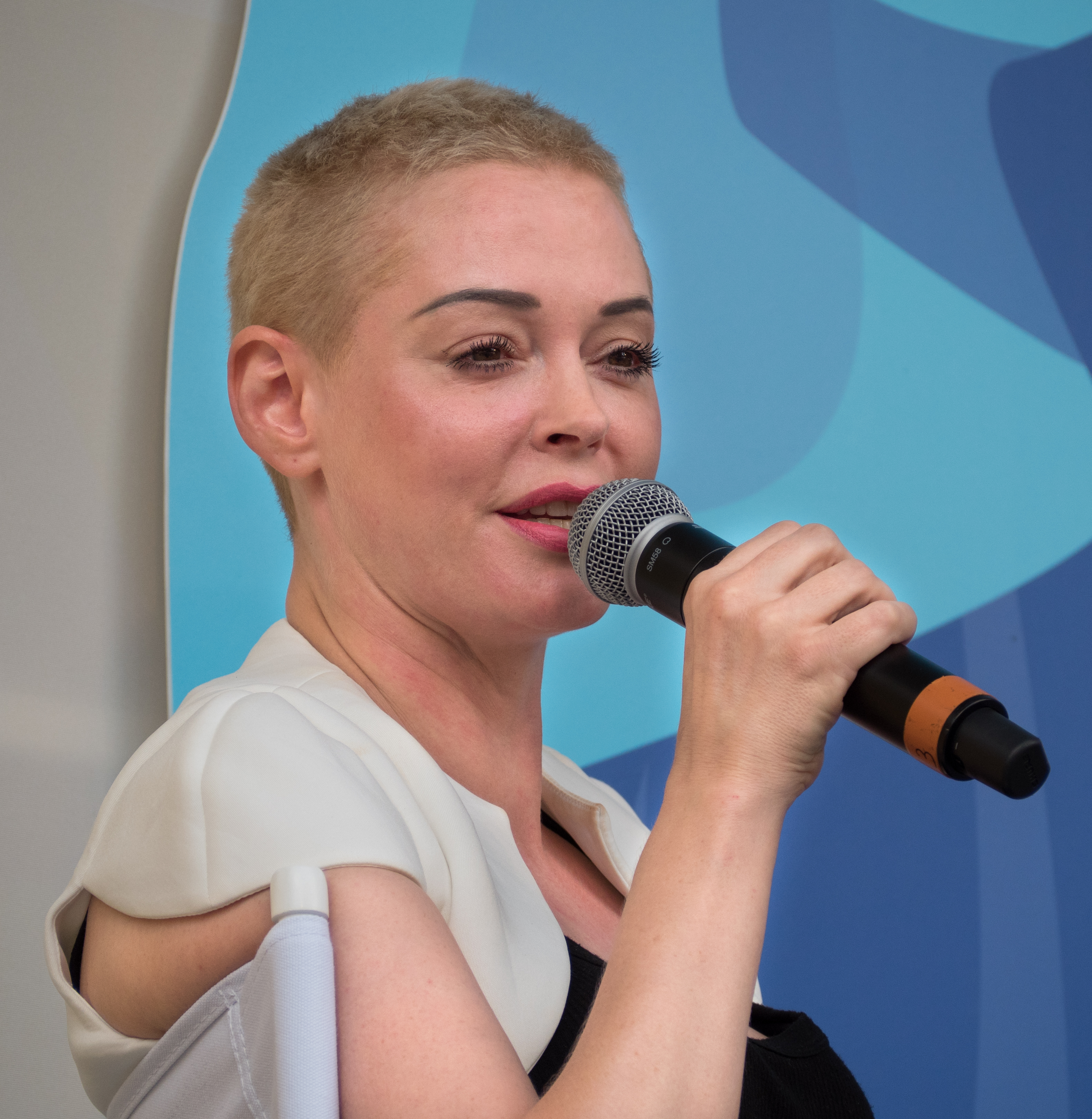 Rose McGowan at Ozy Fest